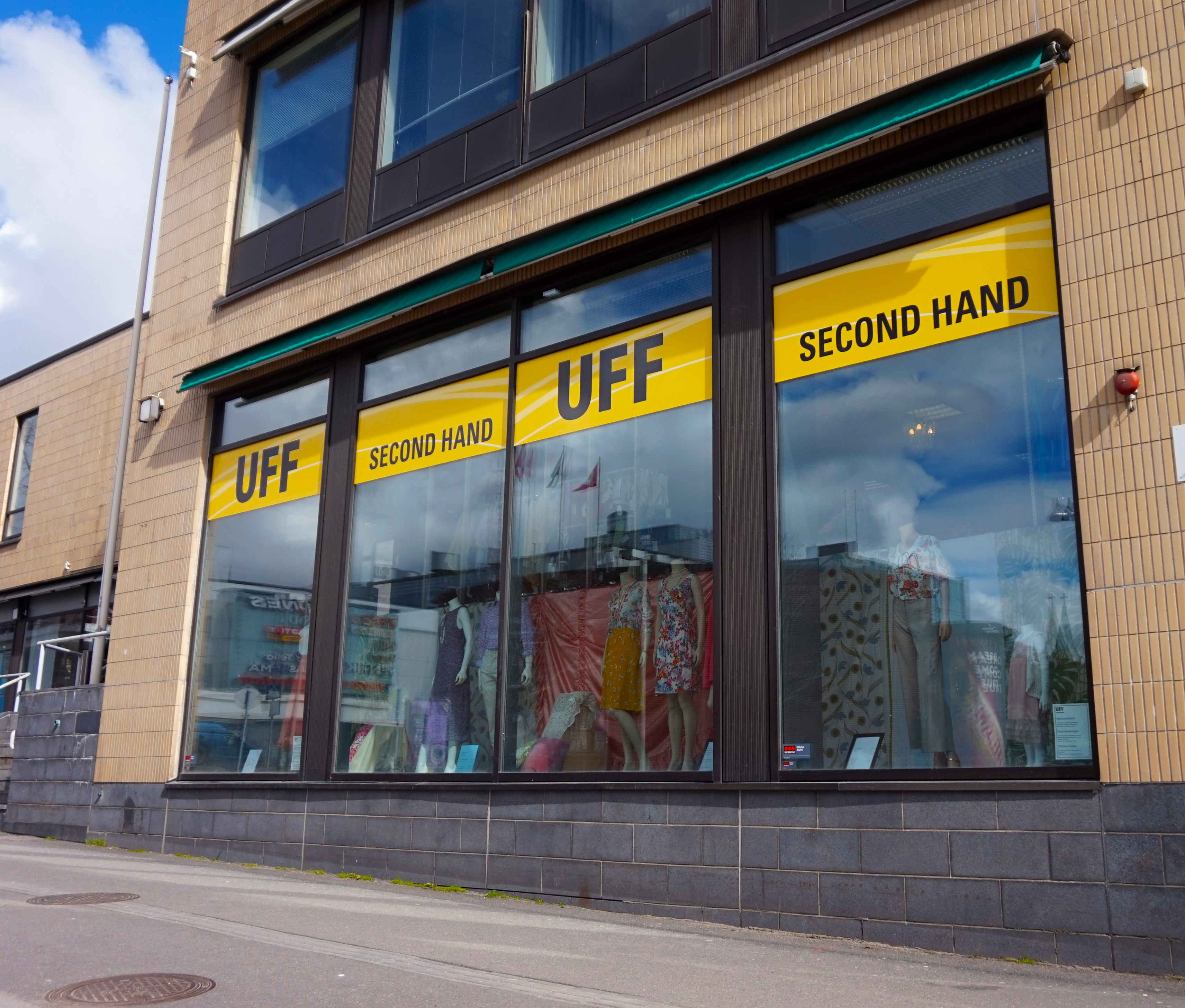 UFF second-hand store in Jyväskylä.